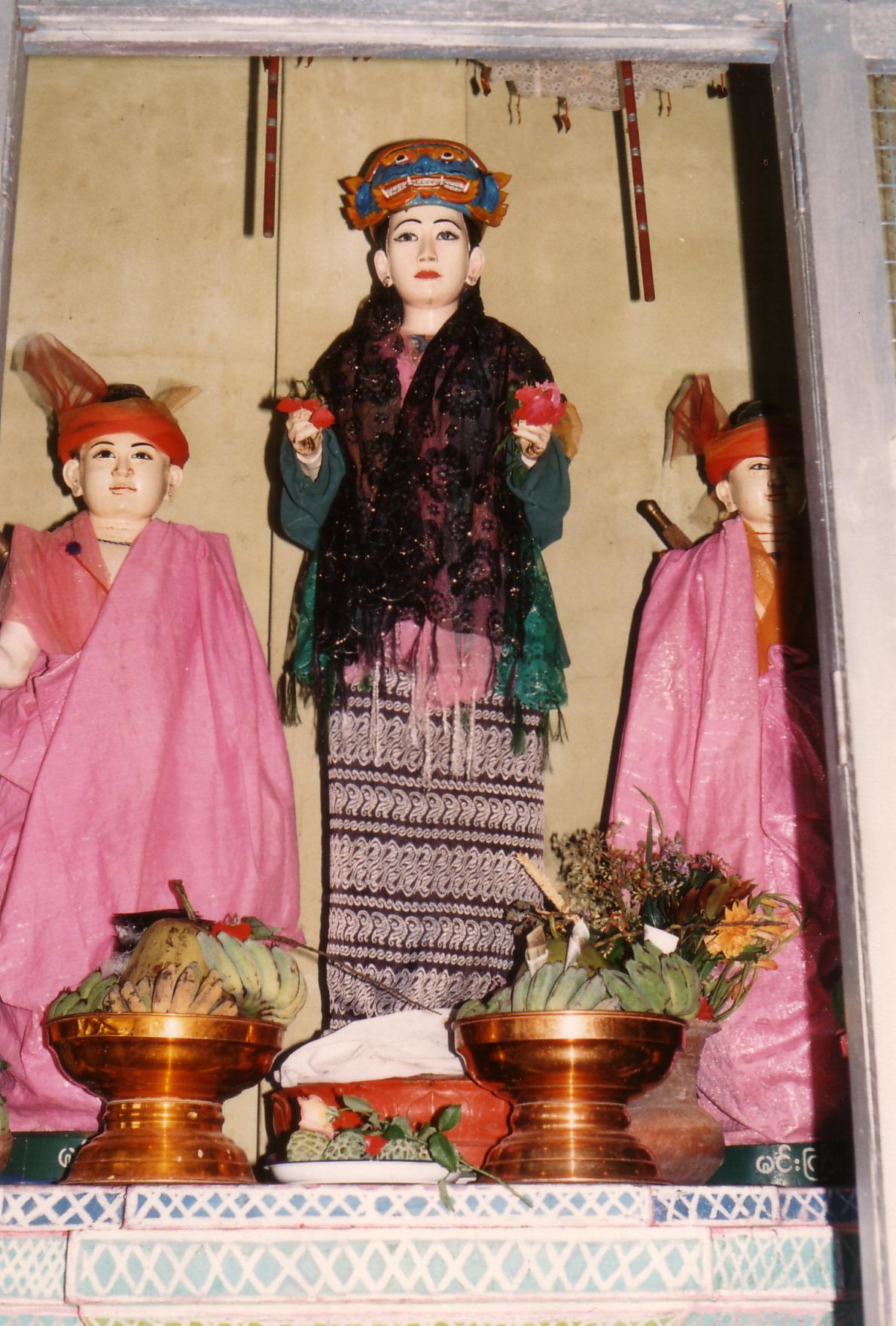 Nat spirits Me Wunna and her sons Shwe Hpyin Gyi and Shwe Hpyin Nge at Mount Popa in central Myanmar